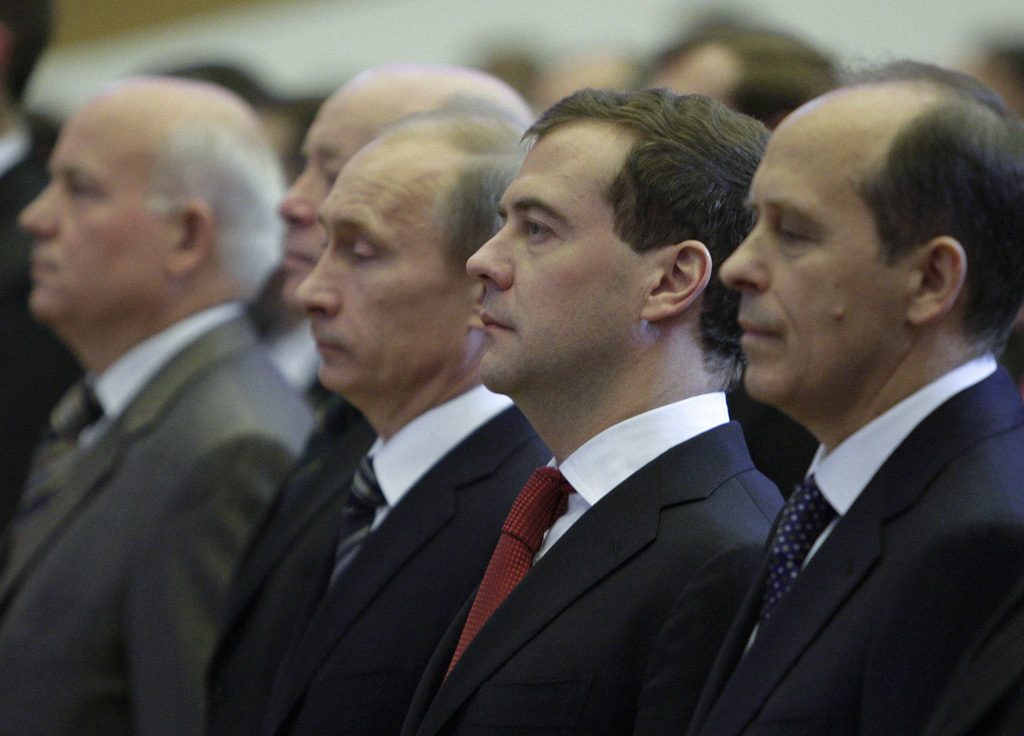 “Head of the Federal Security Service Alexander Bortnikov, Russian President Dmitry Medvedev, Russian Prime Minister Vladimir Putin”. December 17, 2009. Head of the Federal Security Service Alexander Bortnikov, Russian President Dmitry Medvedev and Russian Prime Minister Vladimir Putin (from L to R) at a festival dedicated to the forthcoming State Security Employee Day.